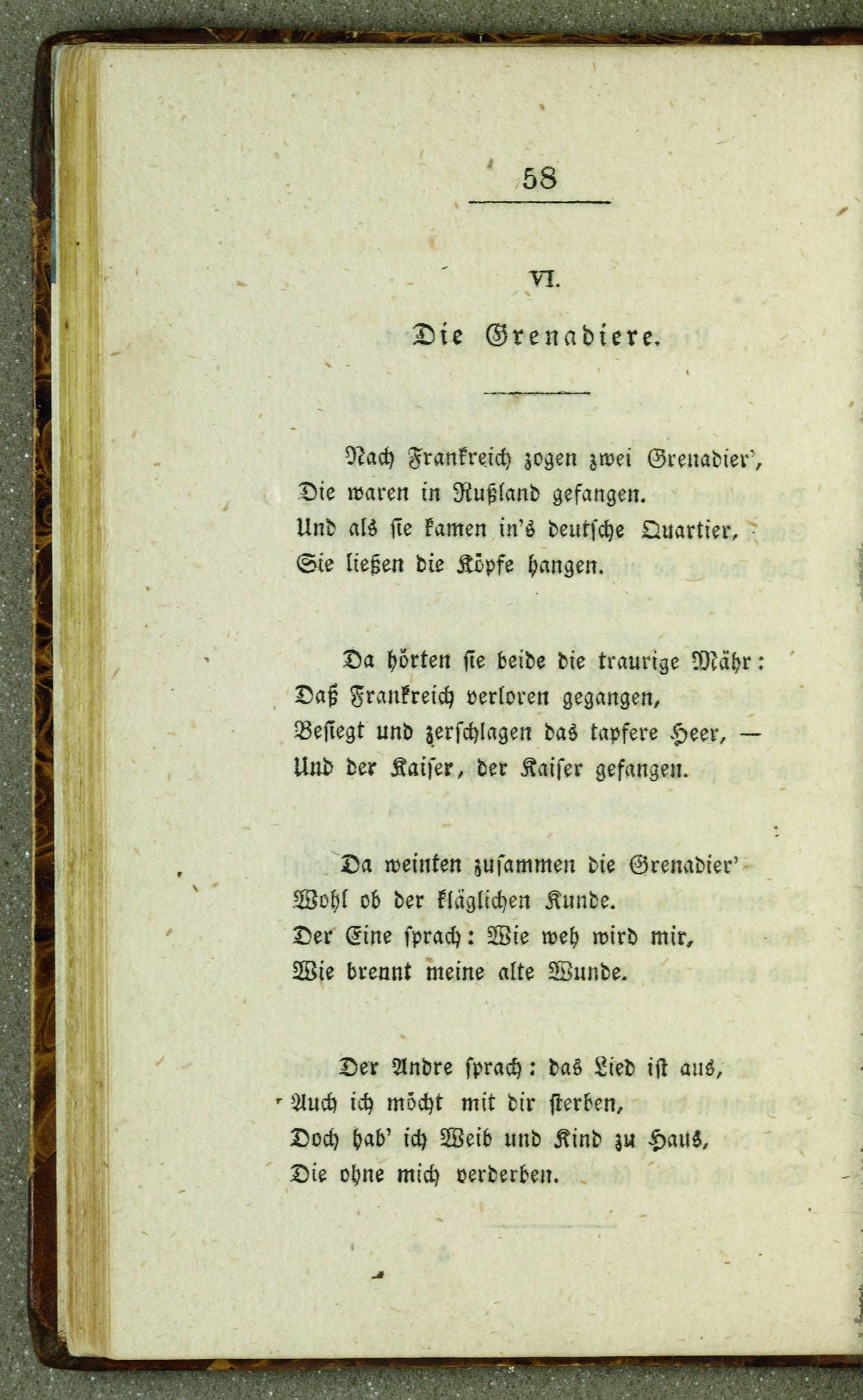 This is a scan of the historical document